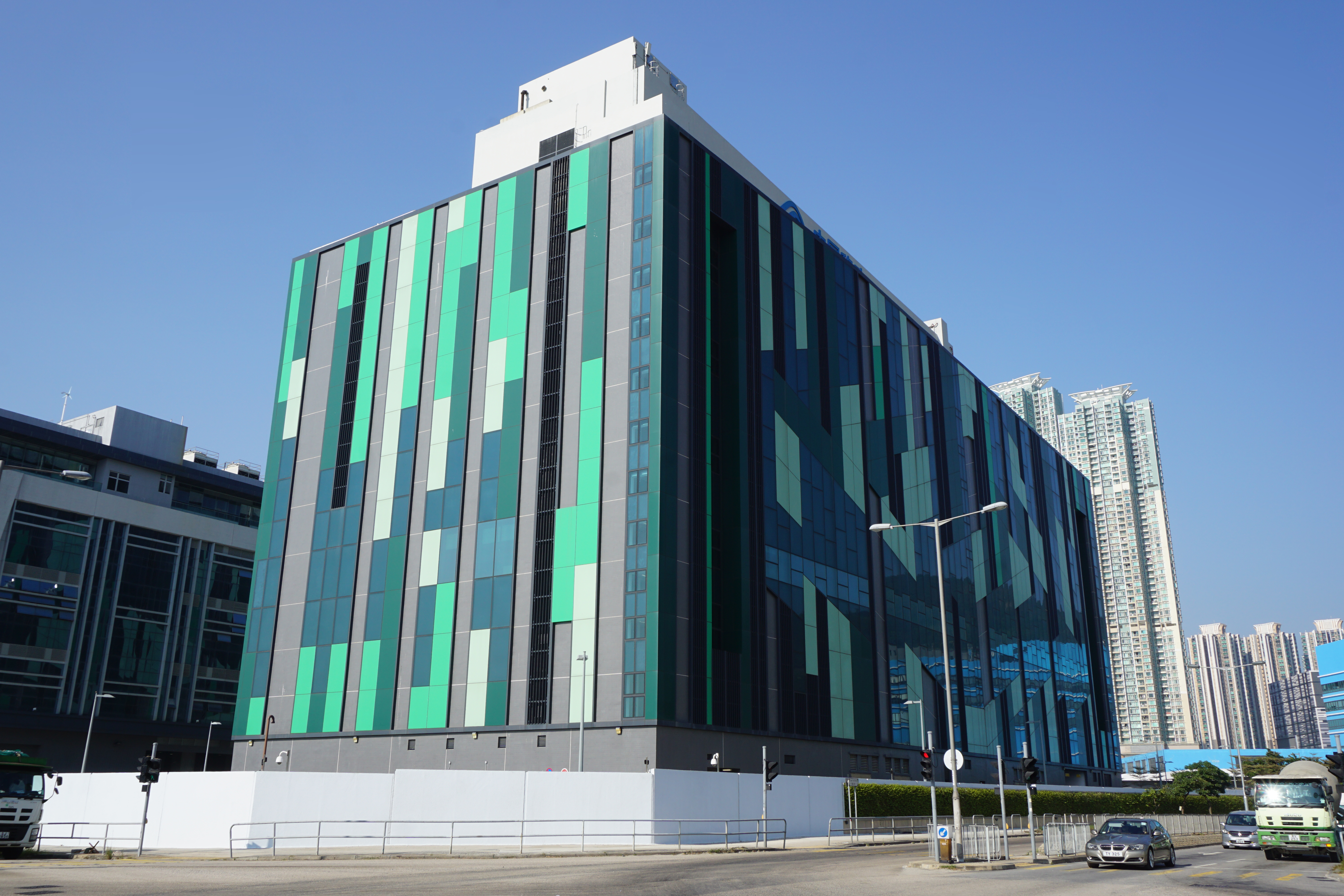 China Mobile Global Network Centre in Tai Chik Sha, Hong Kong.